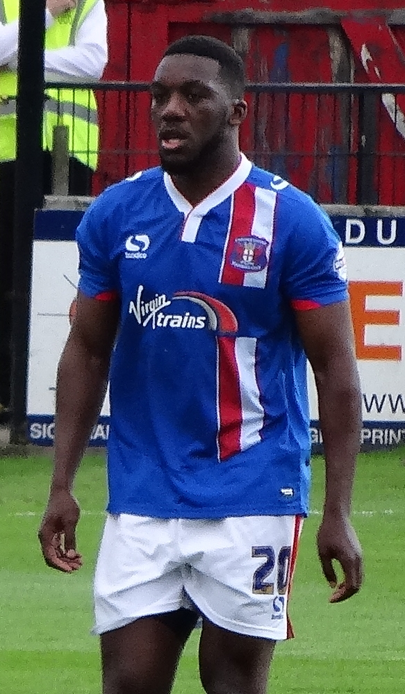 Troy Archibald-Henville playing for Carlisle United against York City at Bootham Crescent, York on 19 September 2015